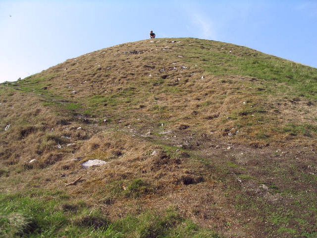 The 'Cairn' at Gop Hill. This is believed to be the second largest man-made mound in Britain. It has been dated as 4000-3000 B.C. Although possibly a burial mound, there were no bodies or chambers found when excavated. It may have been a hill fort. There is speculation that it is linked to Boudica's last battle, but that may just be fantasy. In the 17th century, it was used as a beacon.